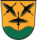 Coat of Arms of Grambow (near Schwerin)